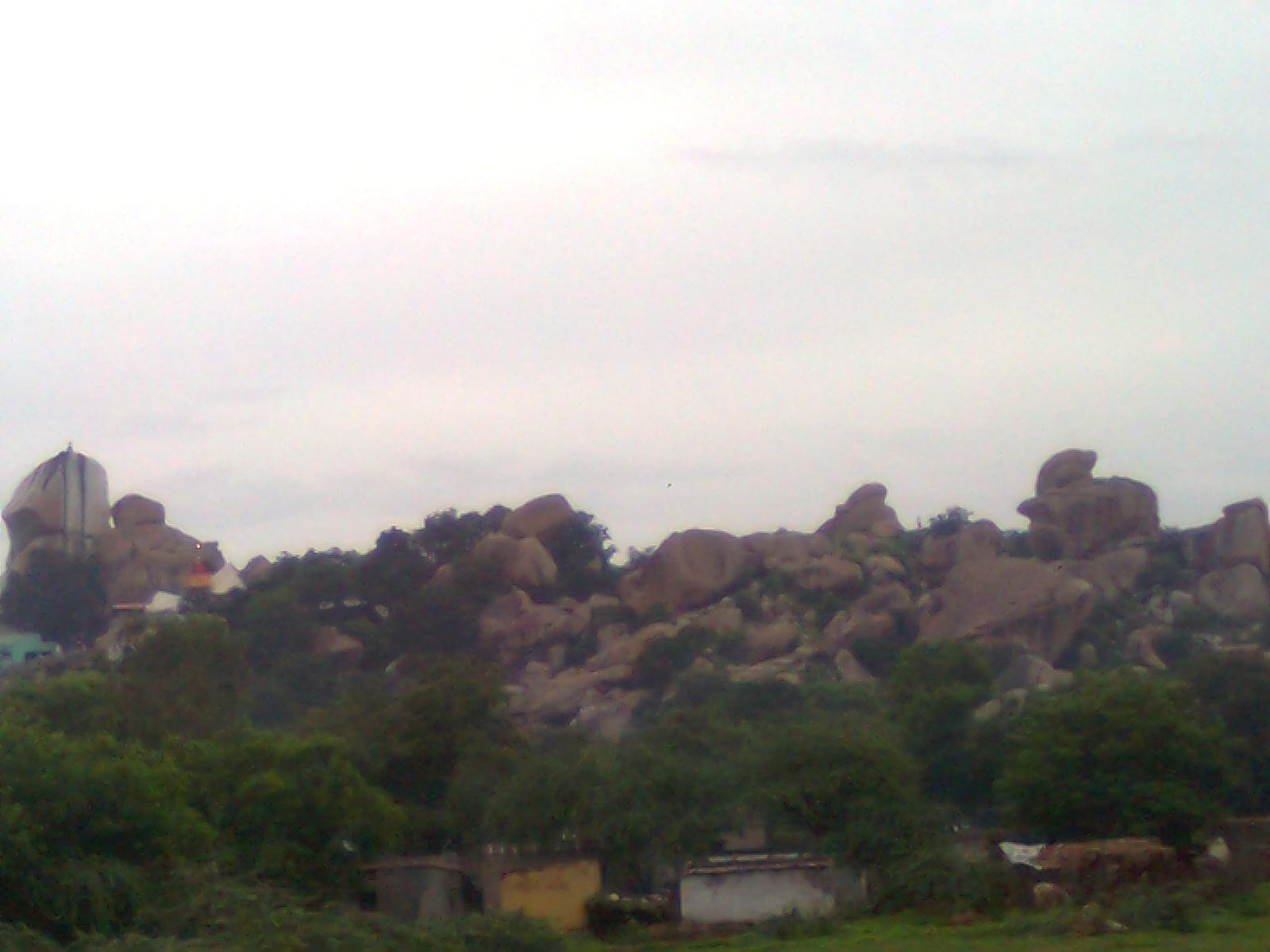 Mylapura Betta (Hill), yadagiri